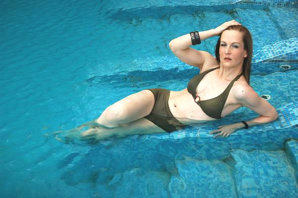 Suzanne 2009